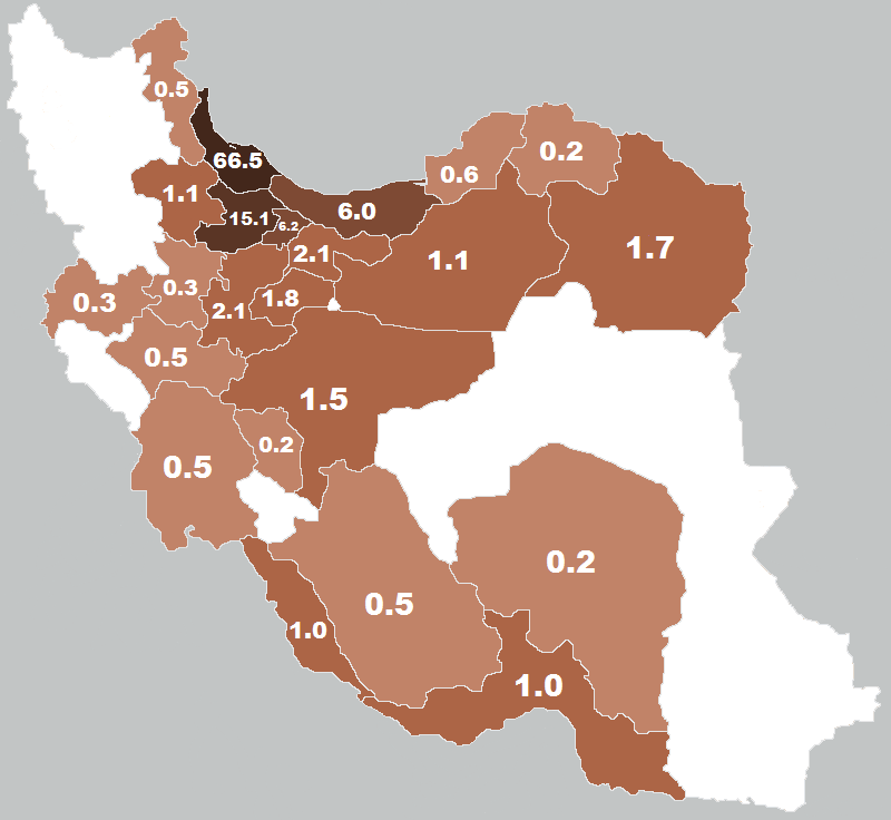 According to the survey carried out by Ministry of Culture of İran in 2010: provinces of mother tongue speaker of Gilakis and their proportions among population in those provinces.